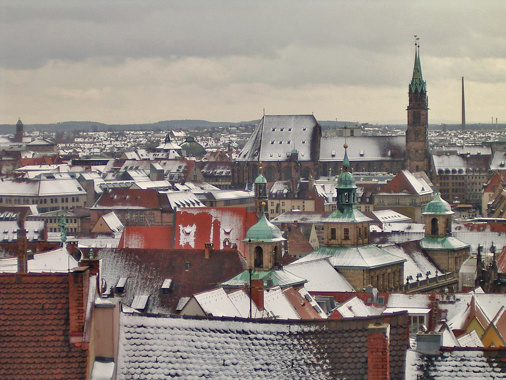 Nuremberg as seen from the castle, from north